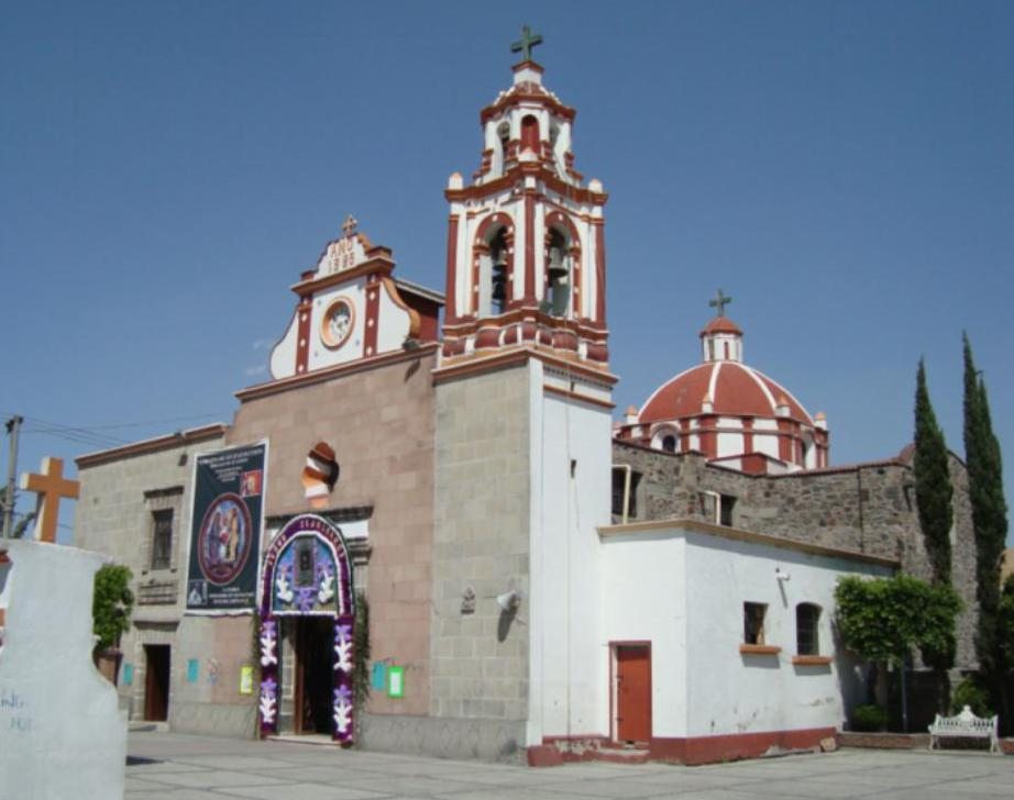 Saint John the Baptist Church, San Juan Ixhuatepec, Tlalnepantla de Baz, México State, México.